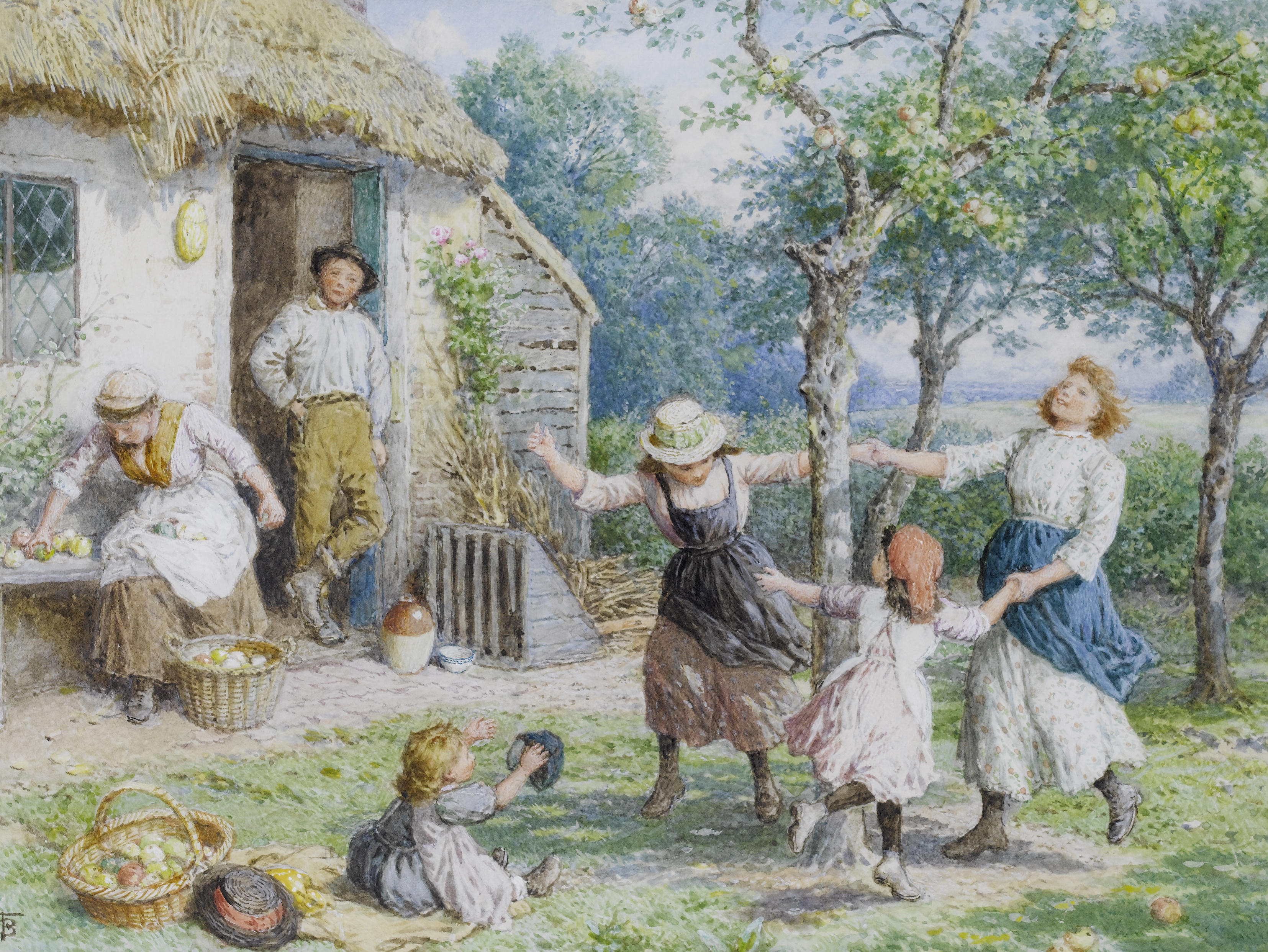 19th century british impressionist art.